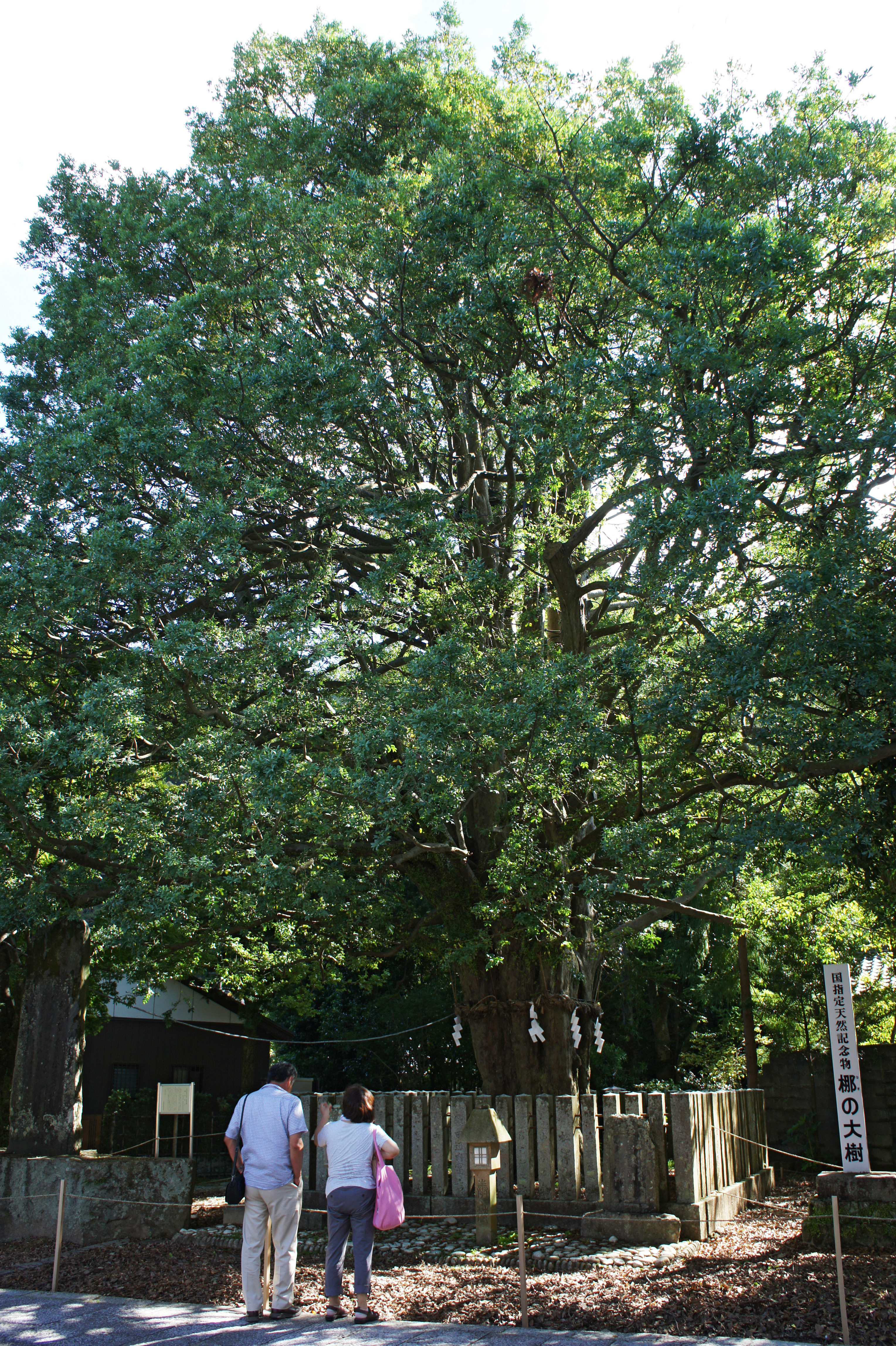 Kumano-Hayatama-shrine in Shingu, Wakayama Prefecture, Japan.